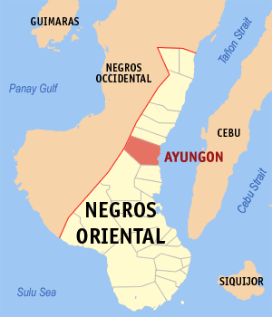 Map of Negros Oriental showing the location of Ayungon